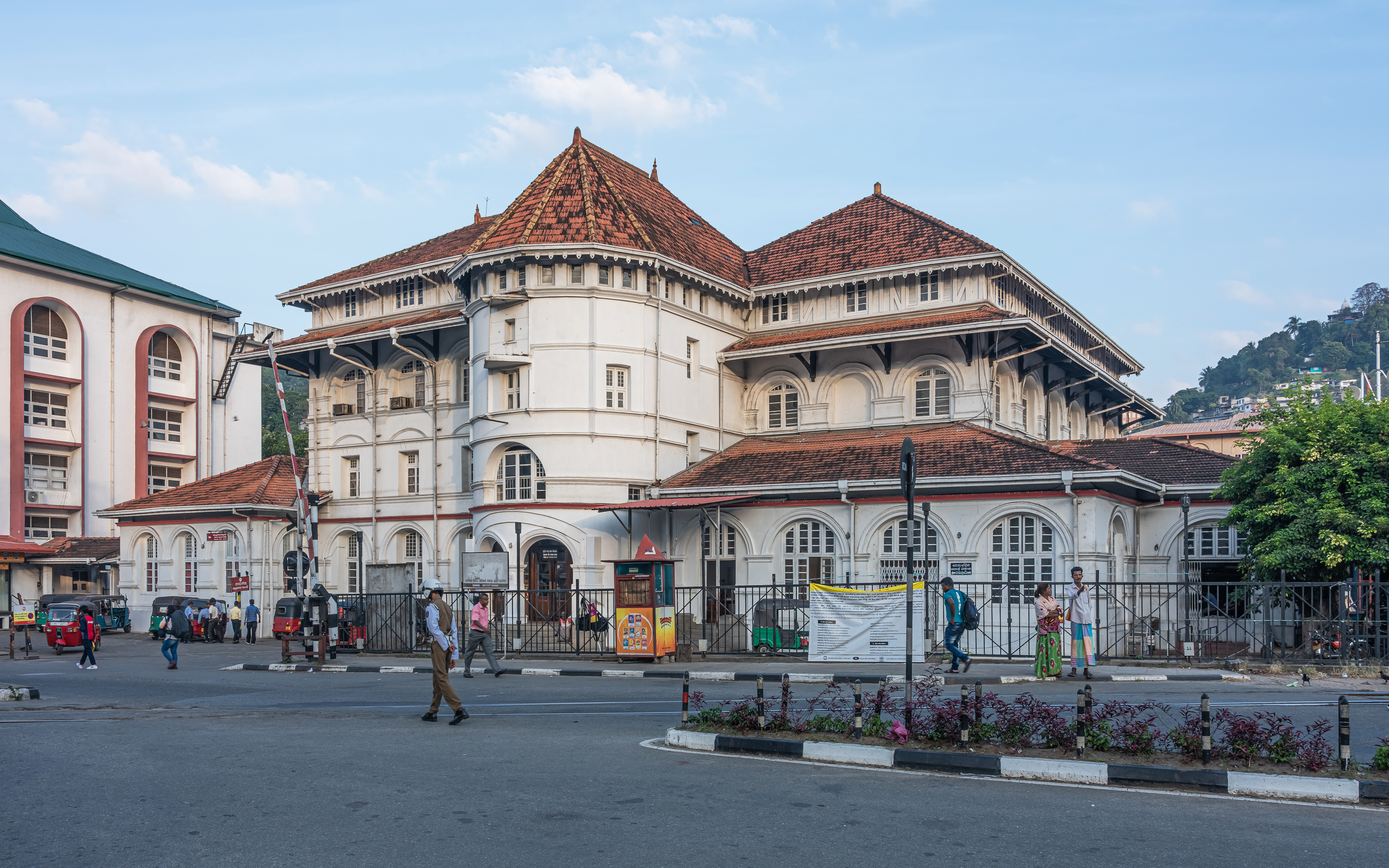 Old post office at the railway station in Kandy, Sri Lanka